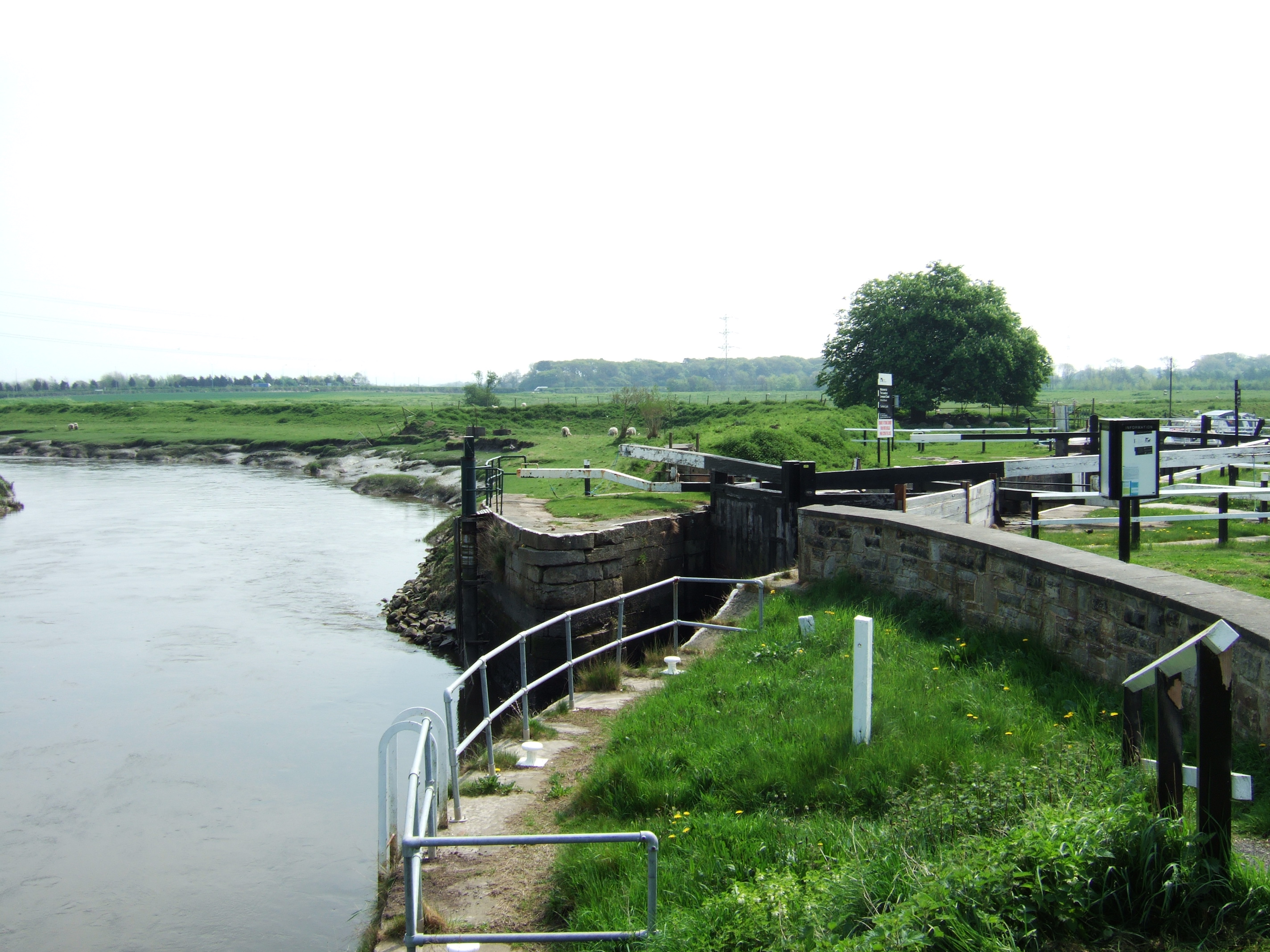 Tarleton Lock, where the Rufford Branch of the Leeds and Liverpool Canal runs into the River Douglas.